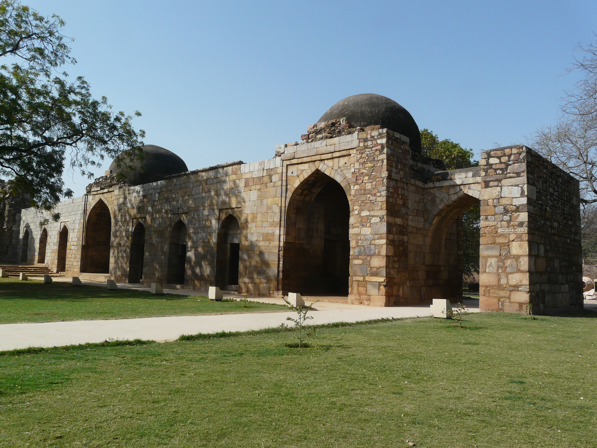 Morning